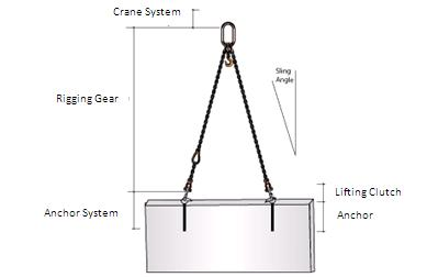 1 figure 2